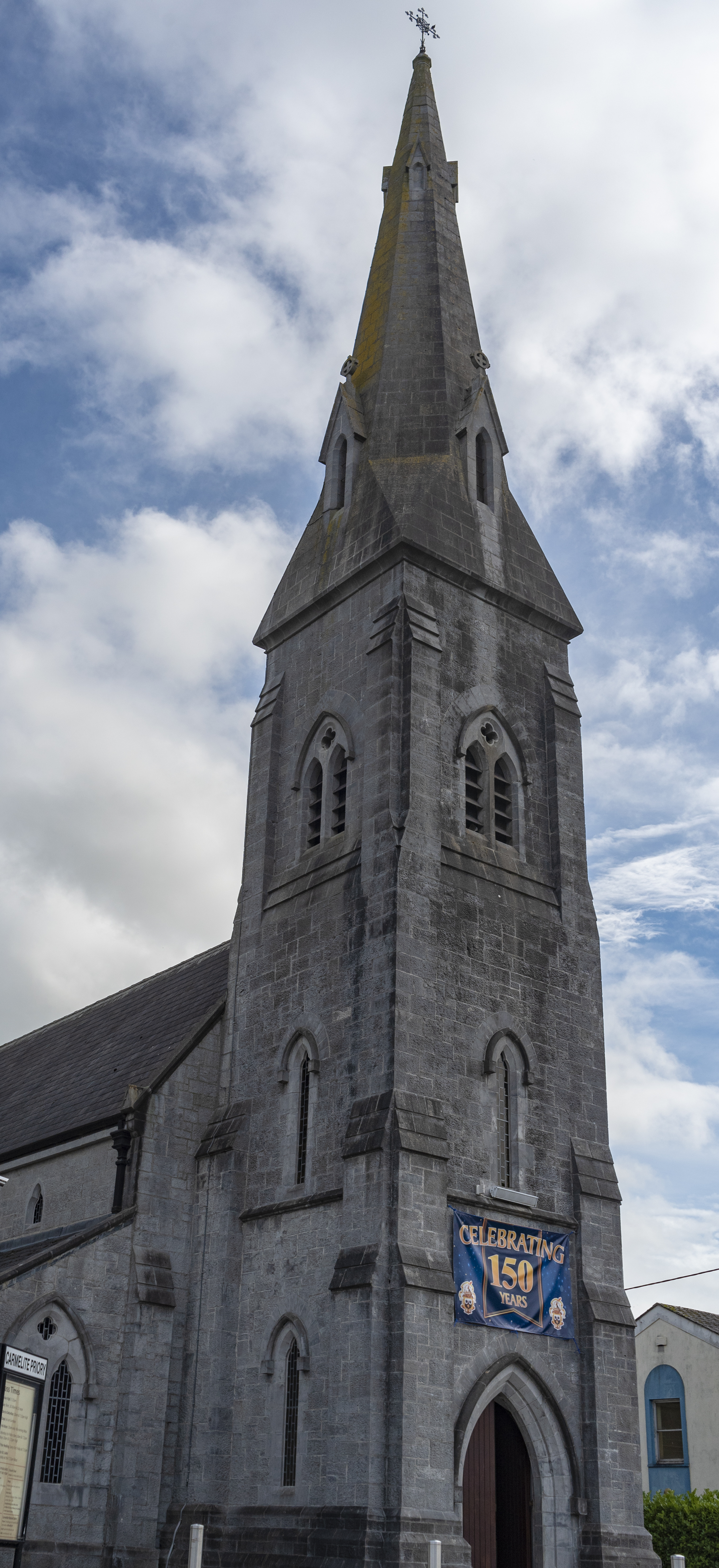 Moate, Church of the Immaculate Conception. Wikidata has entry Q55029873 with data related to this item.